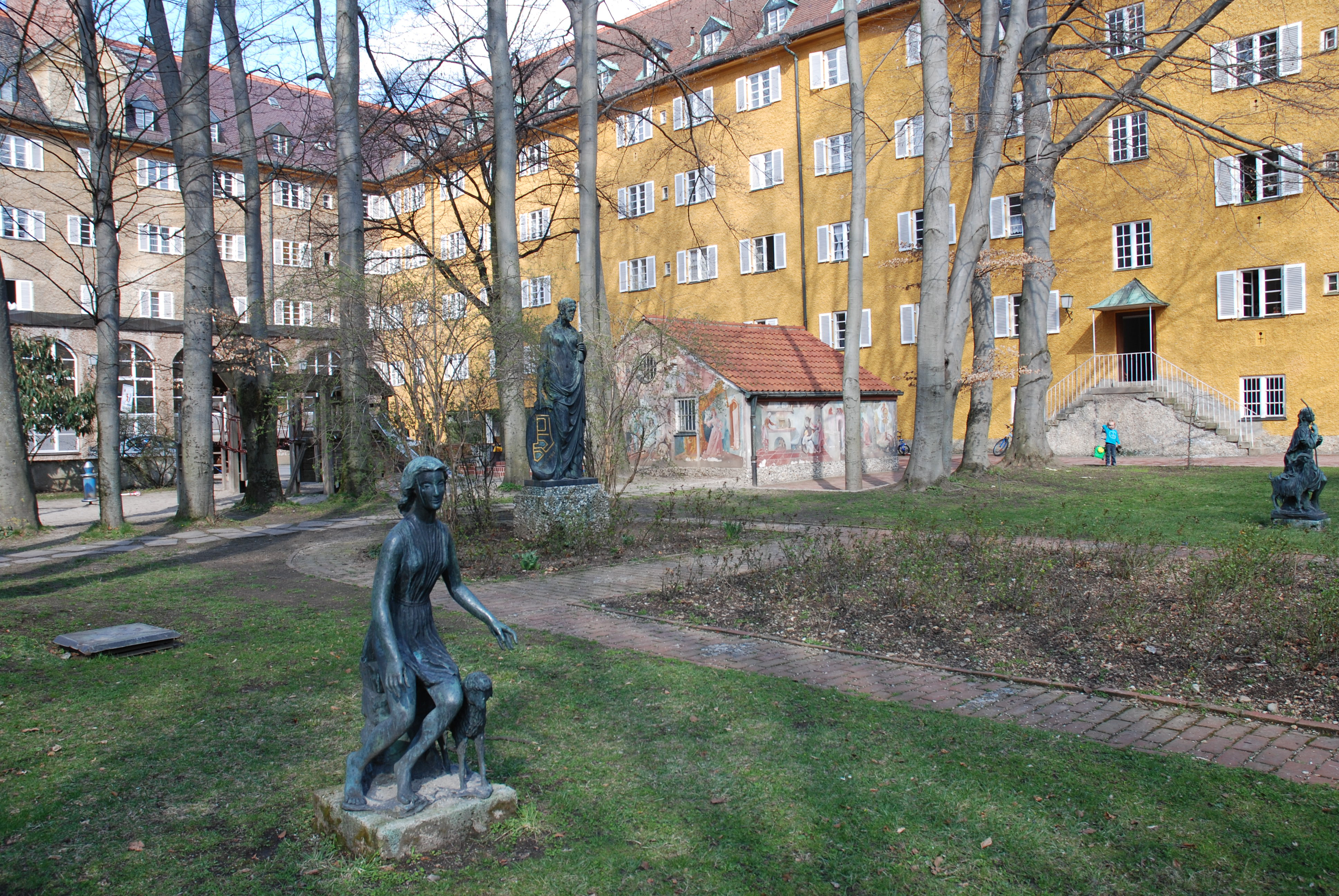 Borstei. Im Rosengarten: Daphnis, im Hintergrund Pallas Athene (""Die Borstei") und Cloe, alle 1957; Spielplatz und Heizwerk